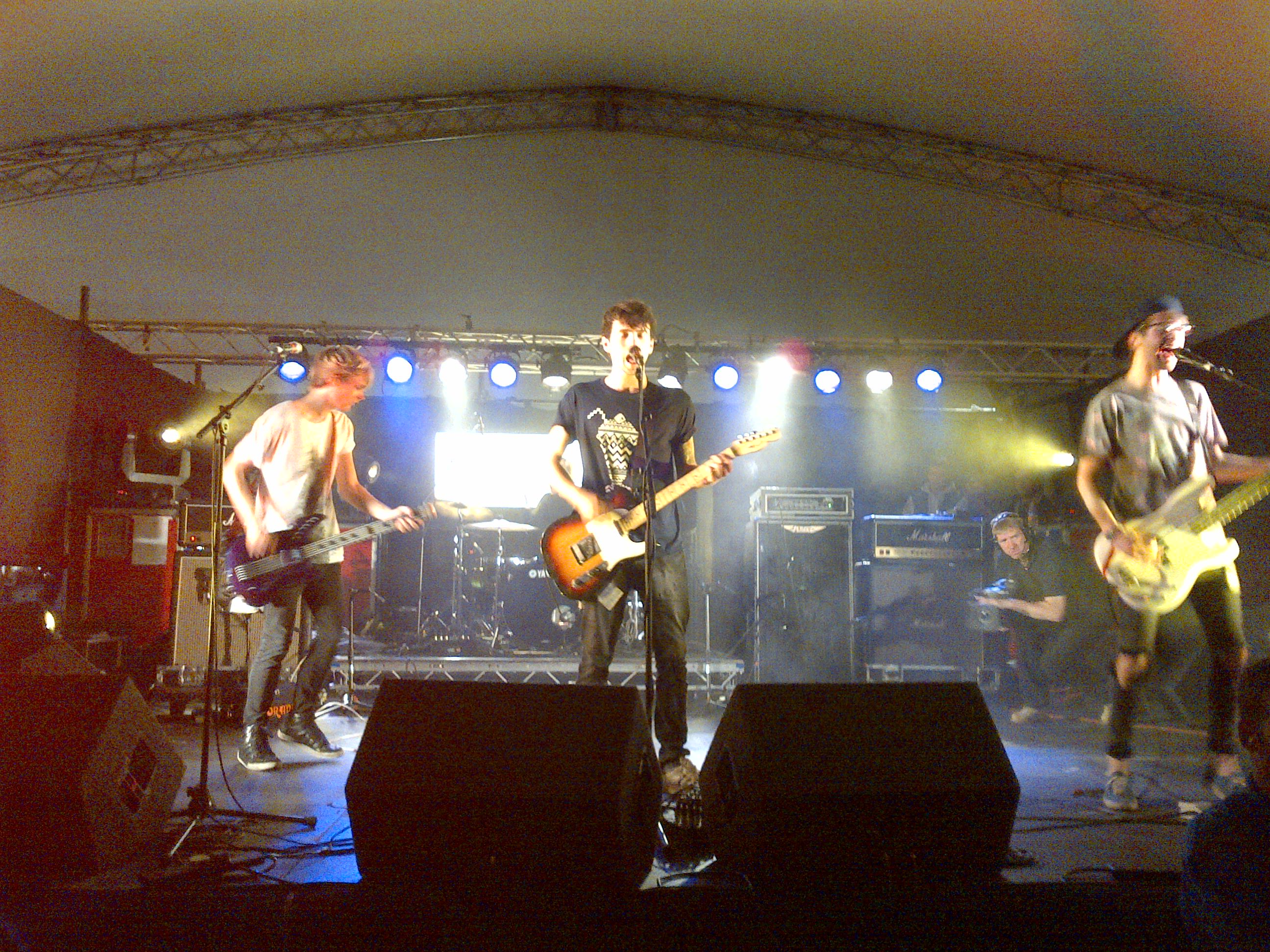 Reading performance by Proxies